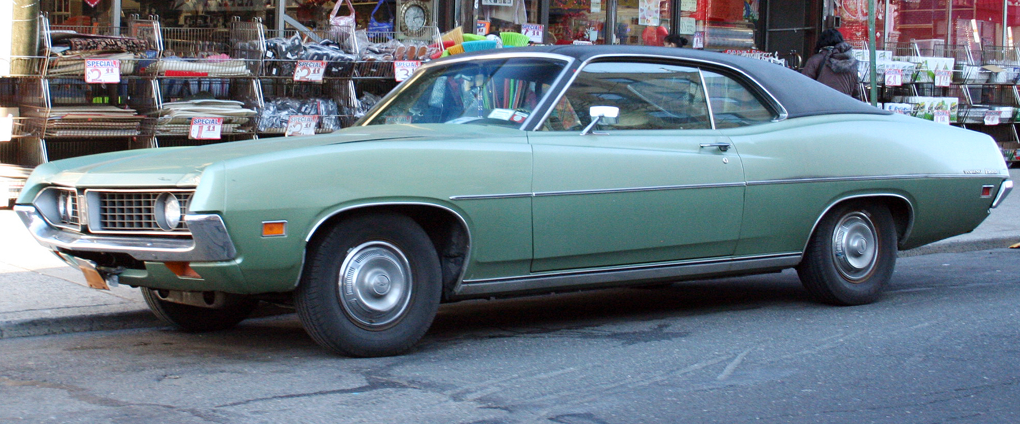 1971 Ford Torino 500. At the time of uploading, the same exact car was parked in the same place in both Google Maps and Google Street View, guess it doesn't get around much.